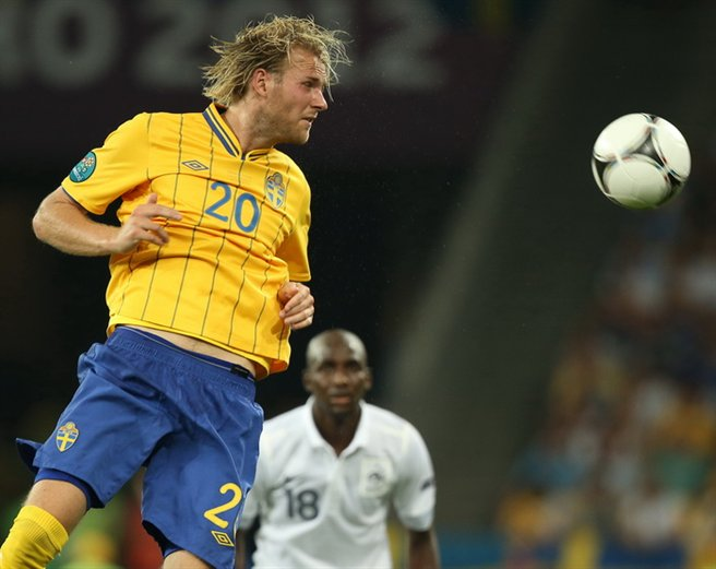 Ola Toivonen at the Euro 2012 match against France